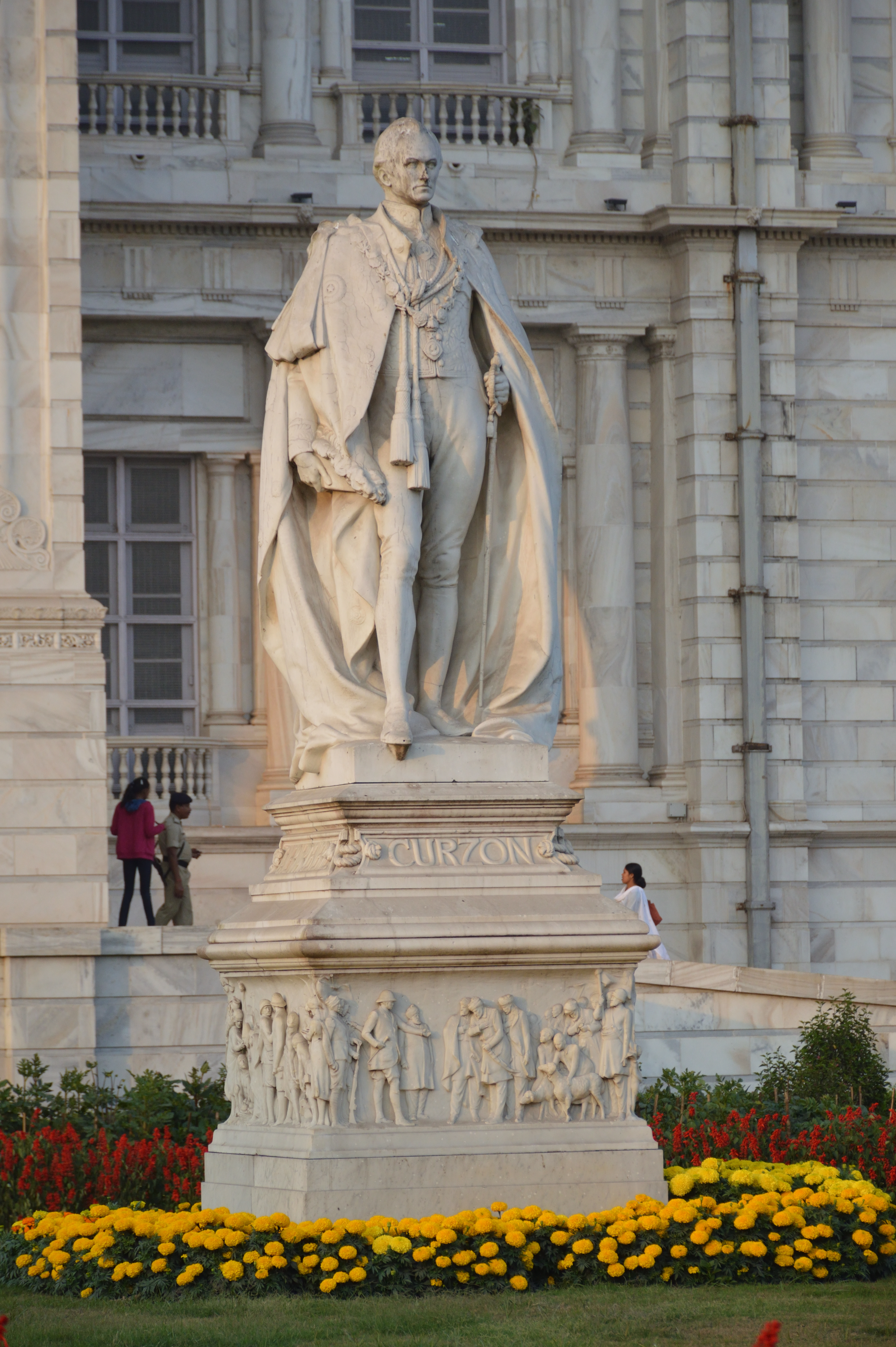 This photograph was taken in Kolkata.